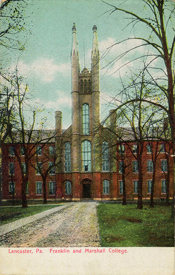 Old Main, the central building in the Franklin and Marshall College campus